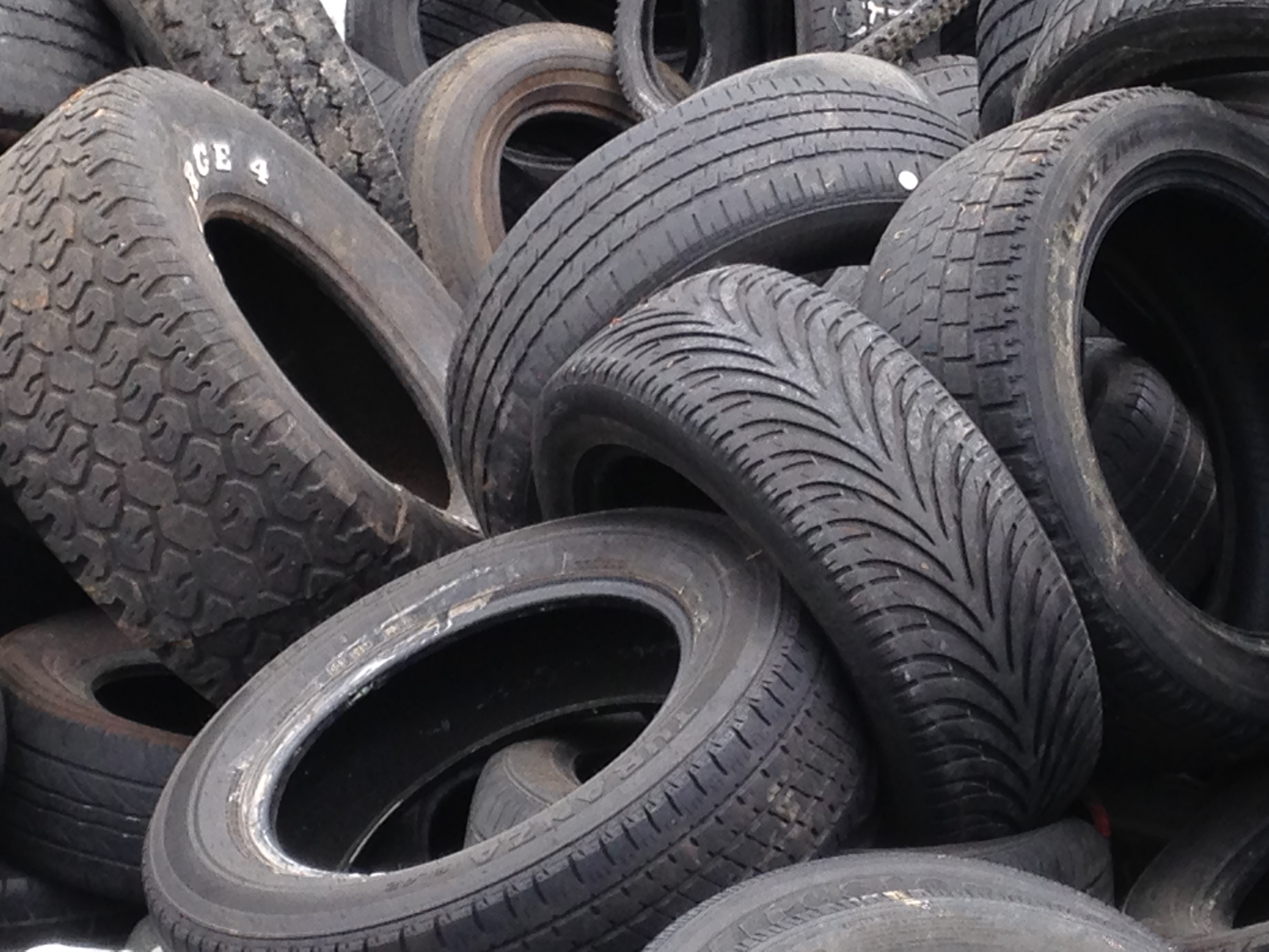 A collection of tires to be recycled at a local recycling center in Nashua, New Hampshire